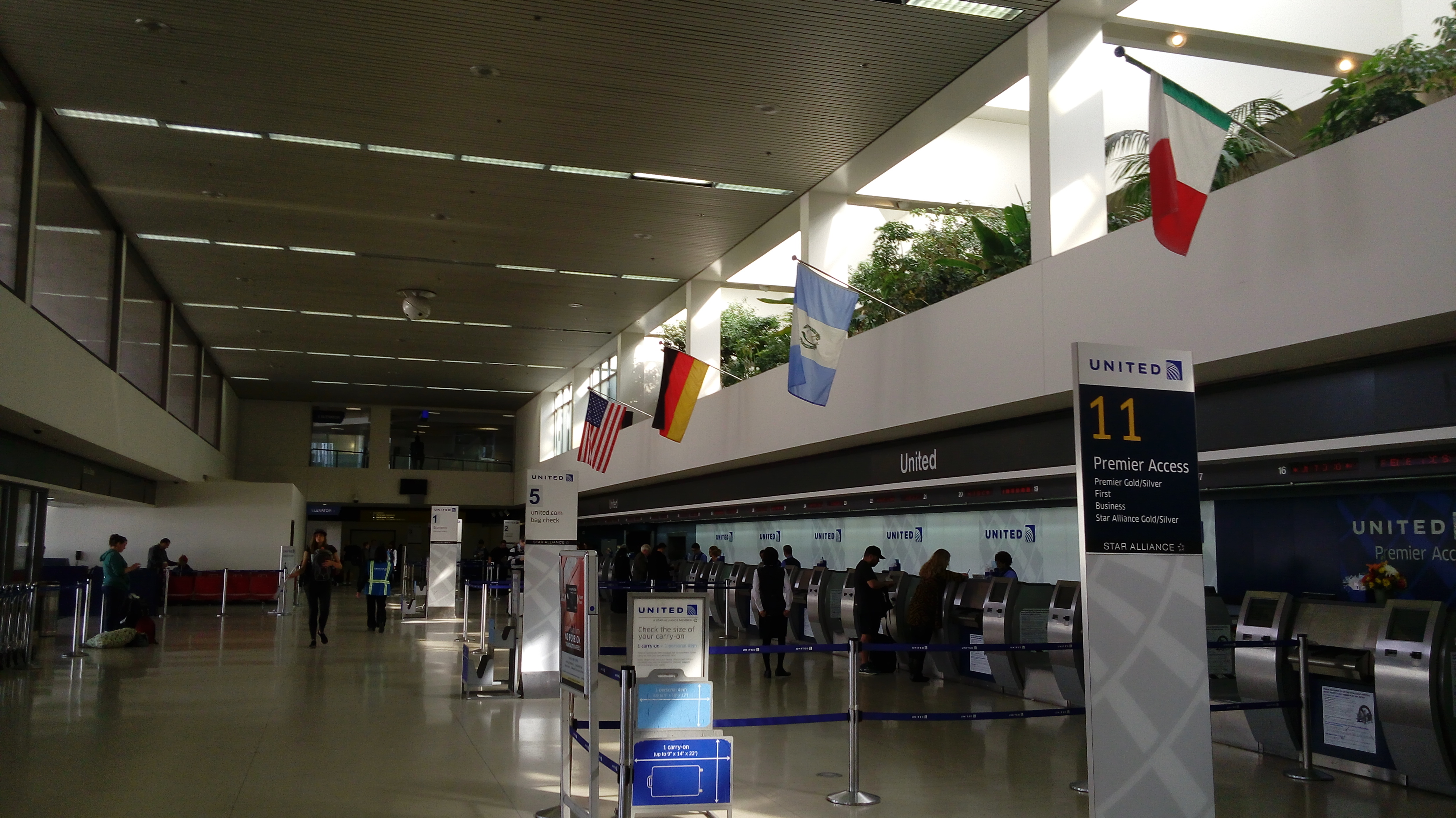 Check in area at LAX Terminal 7